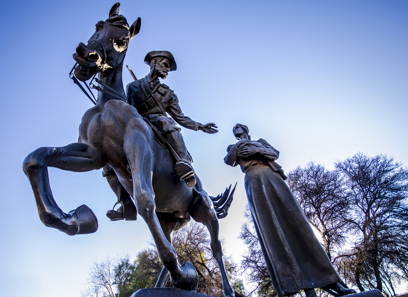 Memorial statue that can be found within the Women's Memorial area This media shows a South African Protected Site with SAHRA file reference 9/2/302/0045.